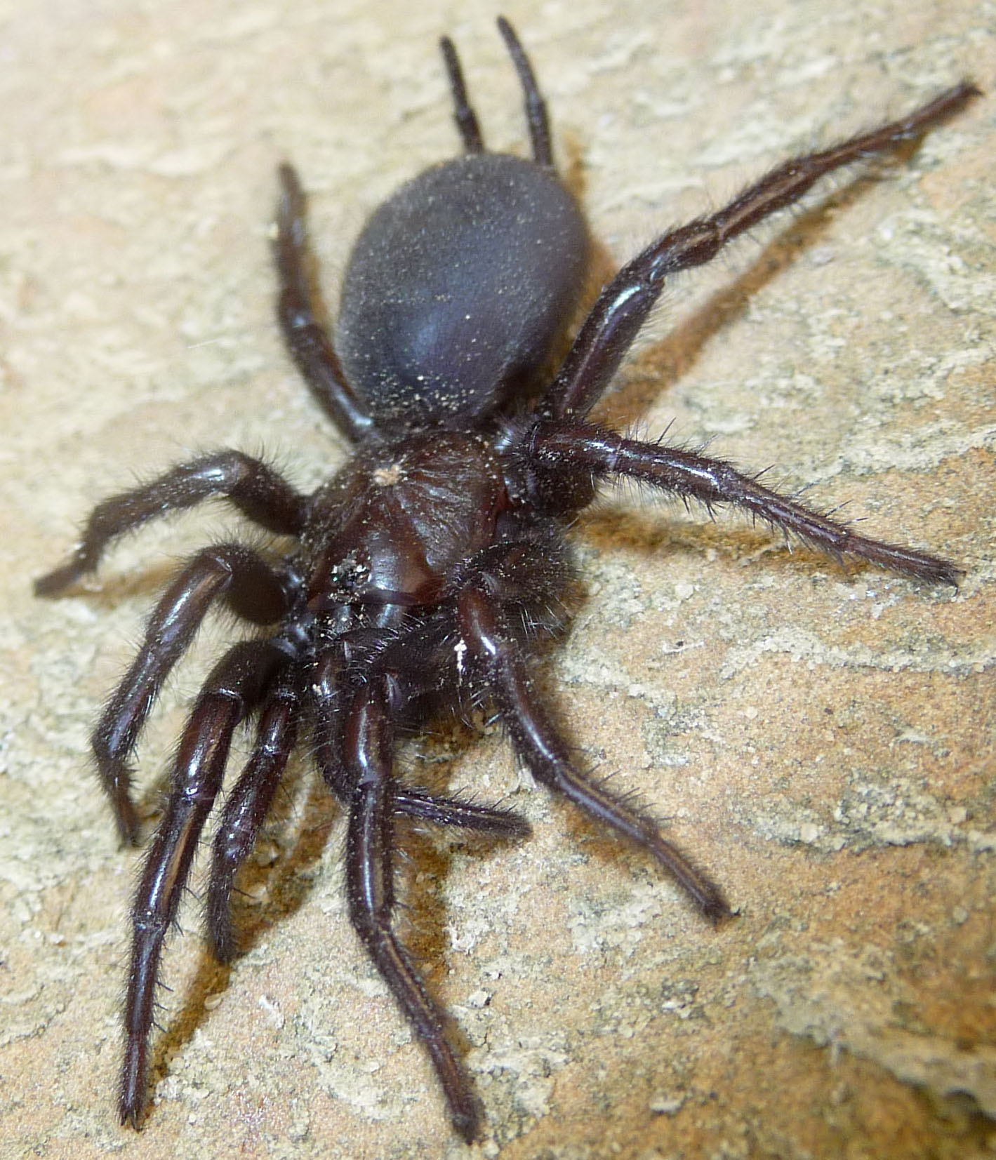 Mygalomorphae, Macrothele calpeiana